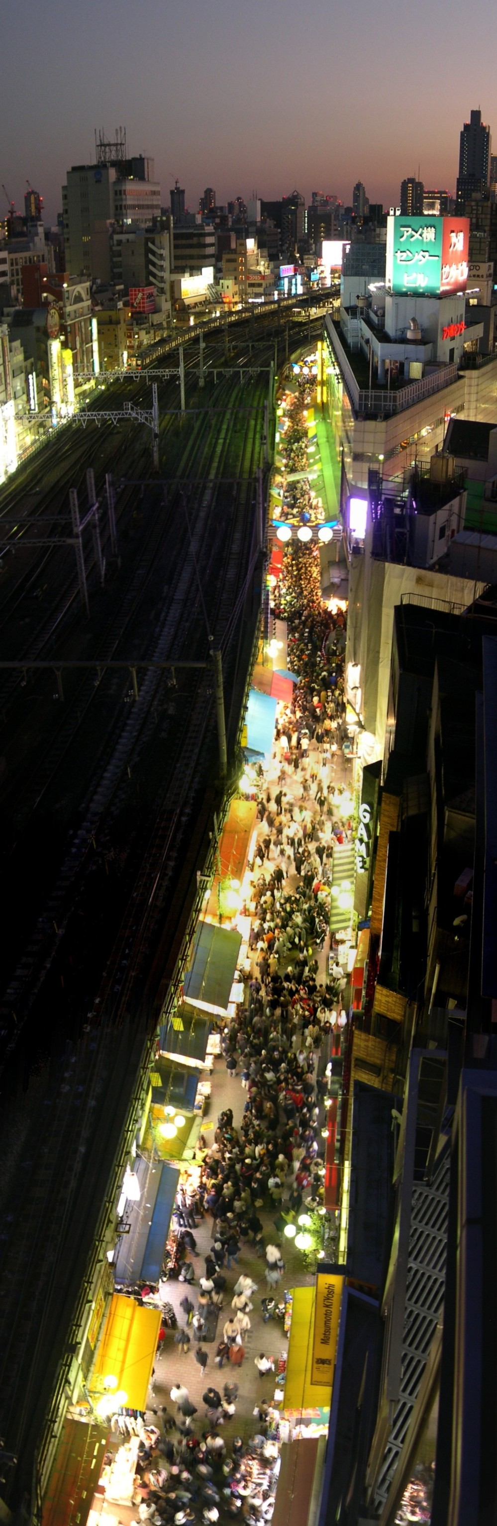 Ameyoko street (Tokyo, Japan) crowded with year-end shoppers. 30 Dec 2006.